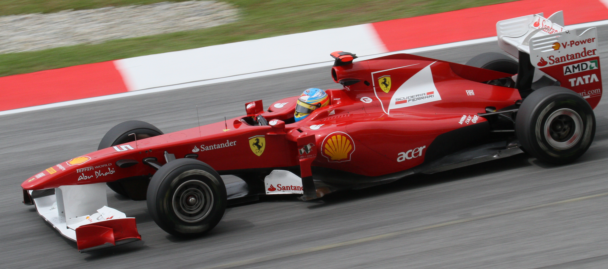 Formula One 2011 Rd.2 Malaysian GP: Fernando Alonso (Ferrari) during the first practice session on Friday.